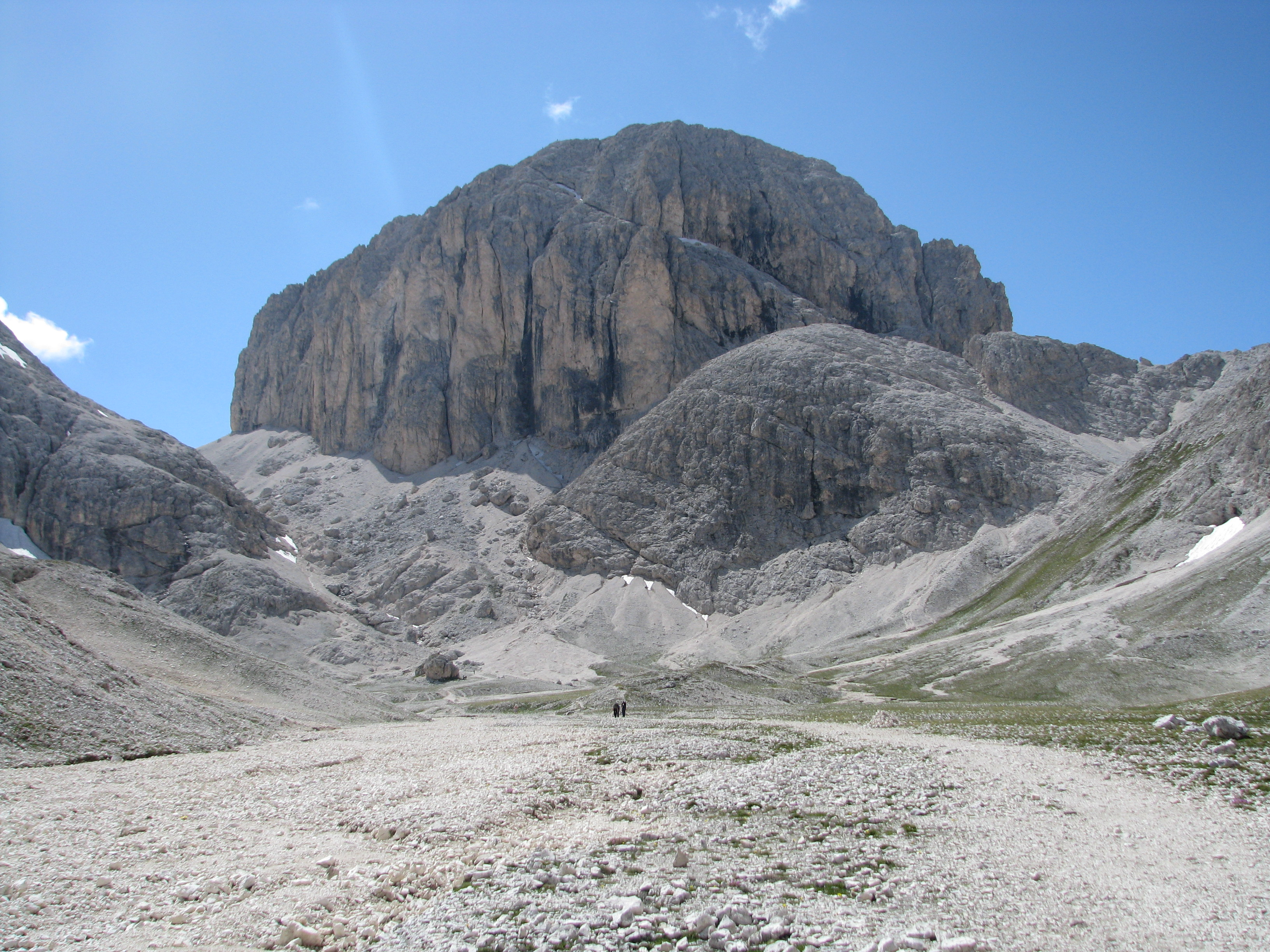 Kesselkogel from vallone omonimo